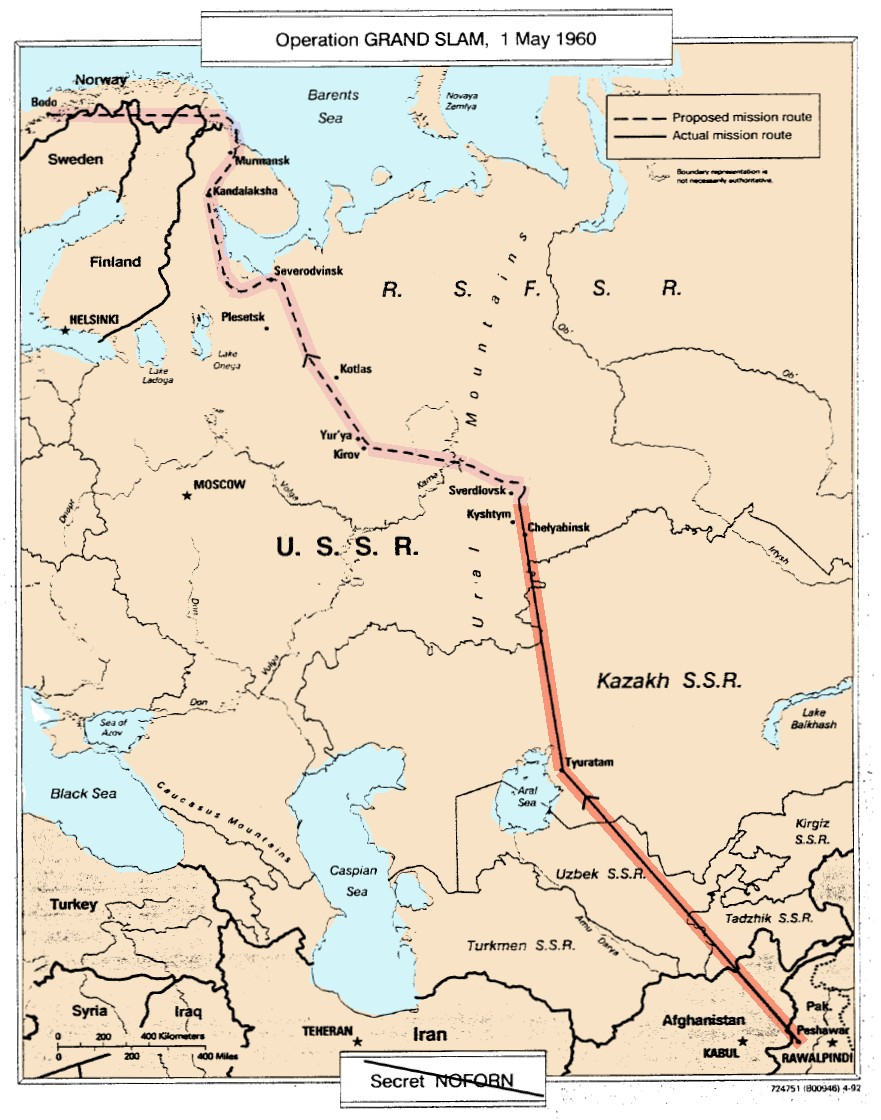 Operation Grand Slam, 1960. (Colored by Rolypolyman.)